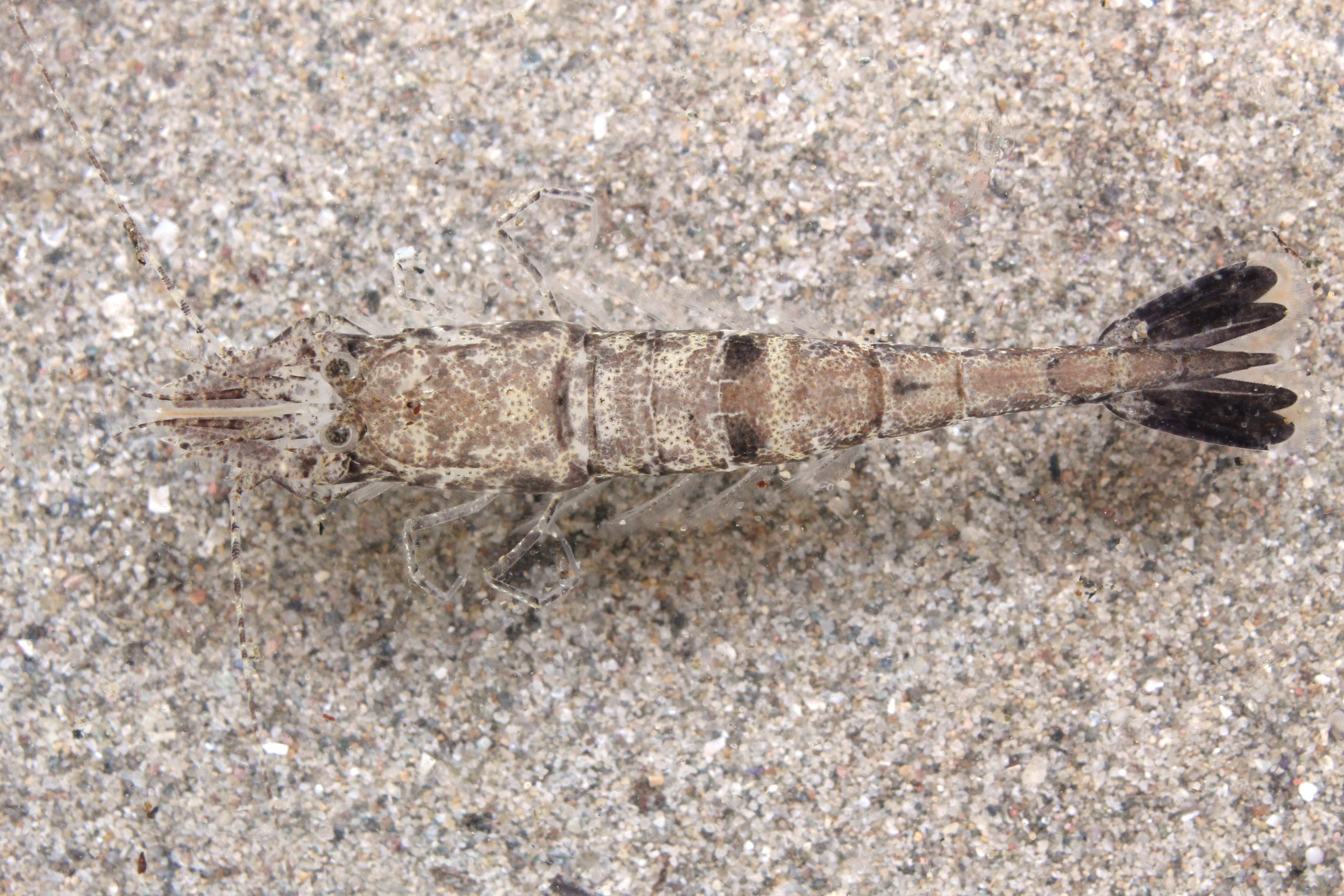 Brown shrimp, common shrimp, bay shrimp or sand shrimp, Crangon crangon, Location: Italy, Porto Garibaldi